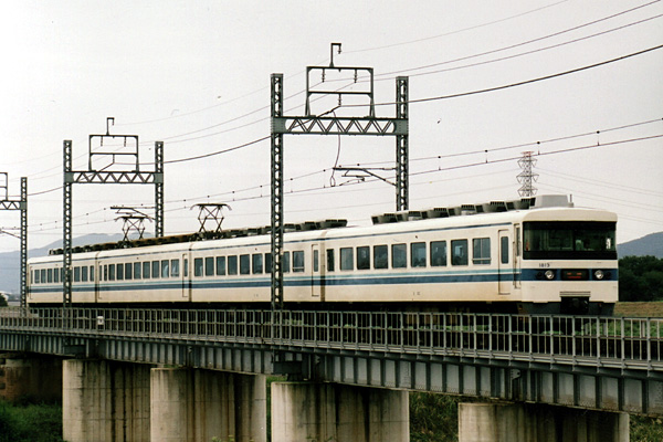 Tobu Railway 1800 series EMU commuter train version